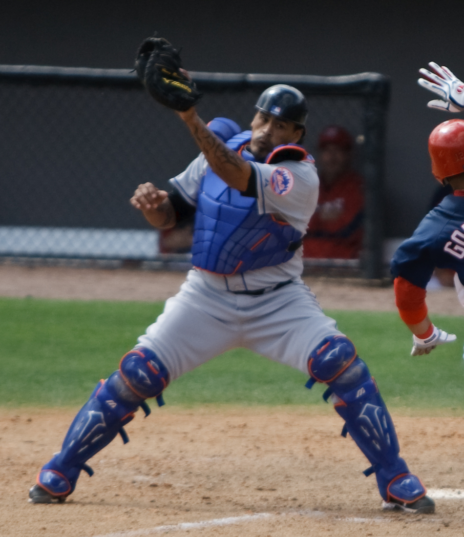 Henry Blanco